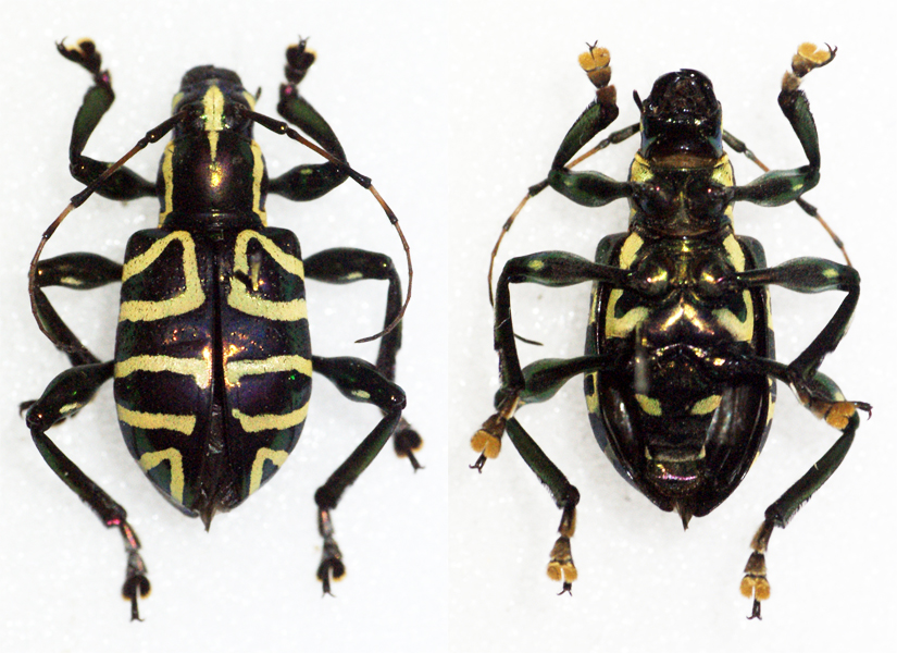 Waterhouse,1842 Sex: Female Data: 05-2013 - Samar - Eastern viscaya - Philippines Size: ?